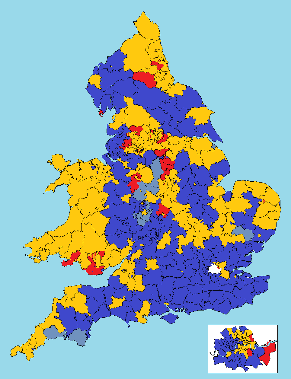 1910D England & Wales Election map